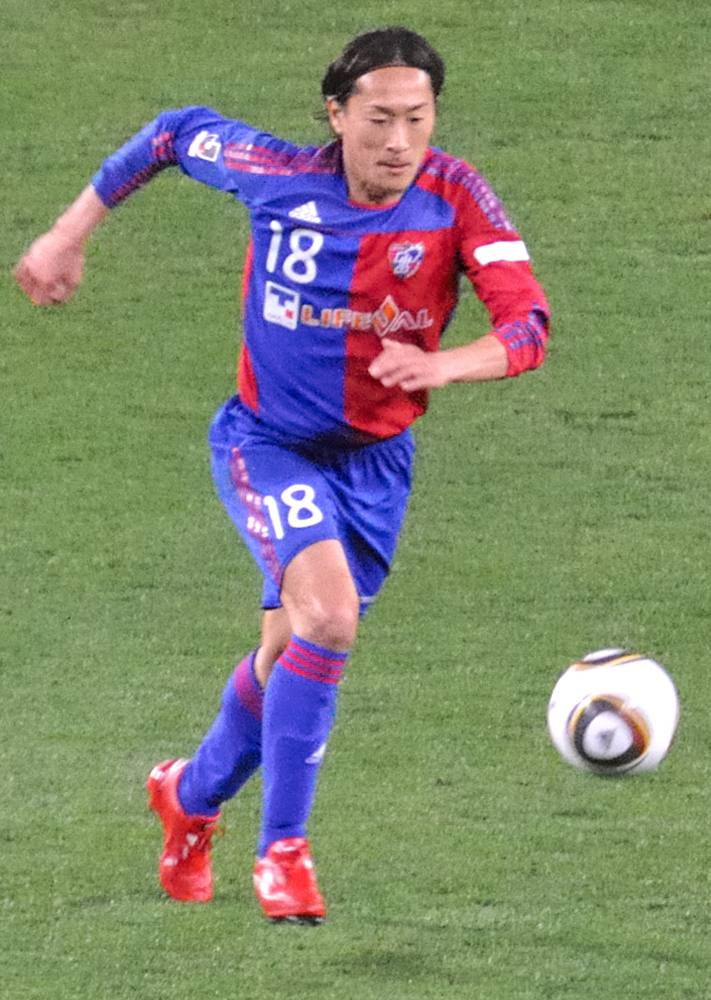 cropped from Tokyo 1 - 1 Kashima